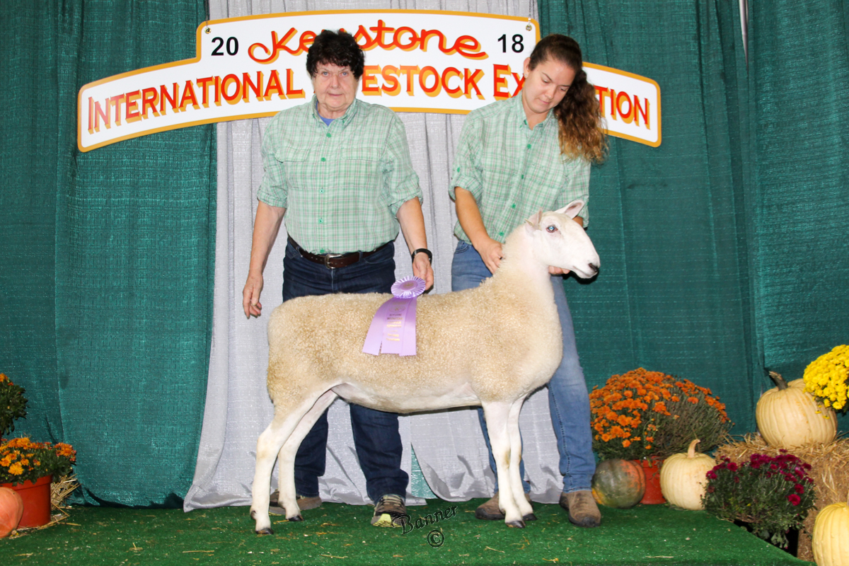 Congratulations to Overlook Manor Farm of Warrenton, Va., for winning Reserve Grand Champion Border Leicester Ewe with WEIK OMF 5564 during the Open Sheep Breeding Show at the 2018 Keystone International Livestock Exposition in Harrisburg.